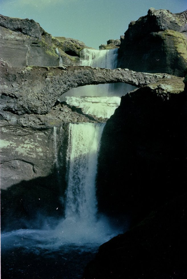 Natural stone bridge over Ofaerufoss, in Eldgja, southeast Iceland.